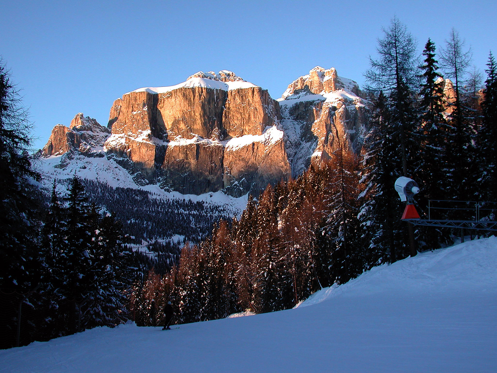 Winter view of the Sella Group, skiing down towards Canazei in the late afternoon.